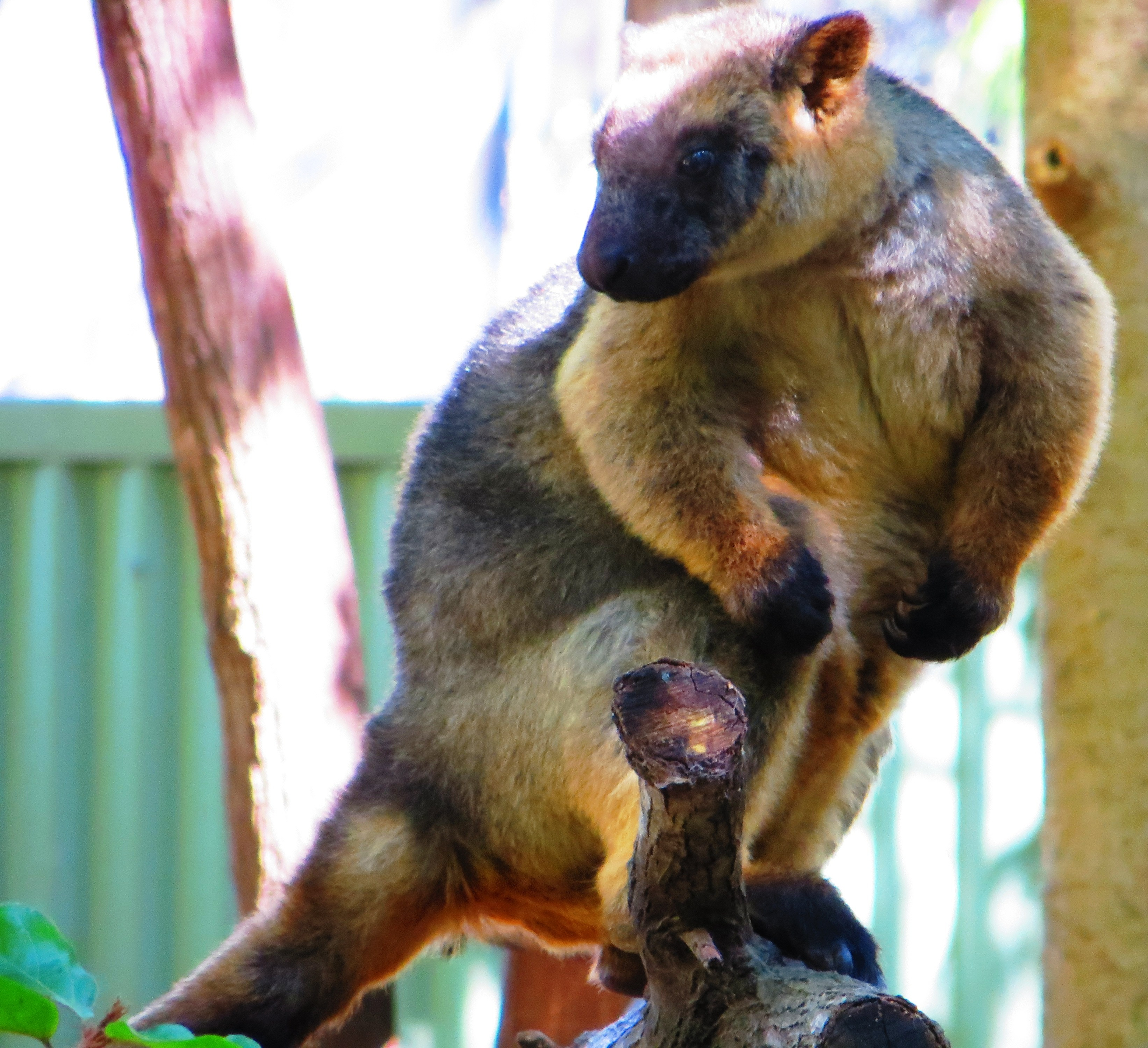 Lumholtz's tree kangaroo (Dendrolagus lumholtzii) at David Fleay Wildlife Park, Burleigh Heads, Queensland.